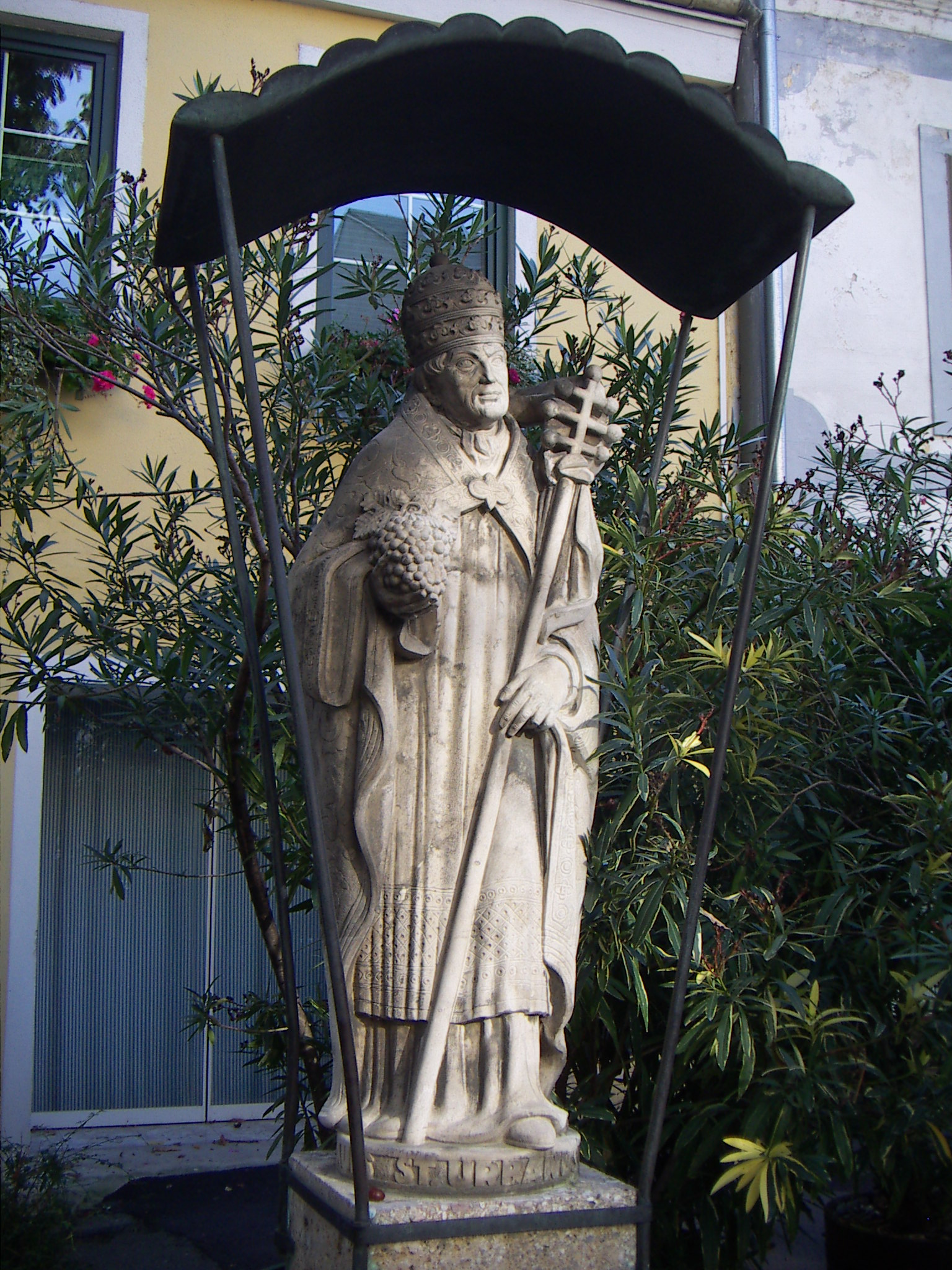 Urban of Langres in Gumpoldskirchen, Skulptur von A. Riedl, 1956